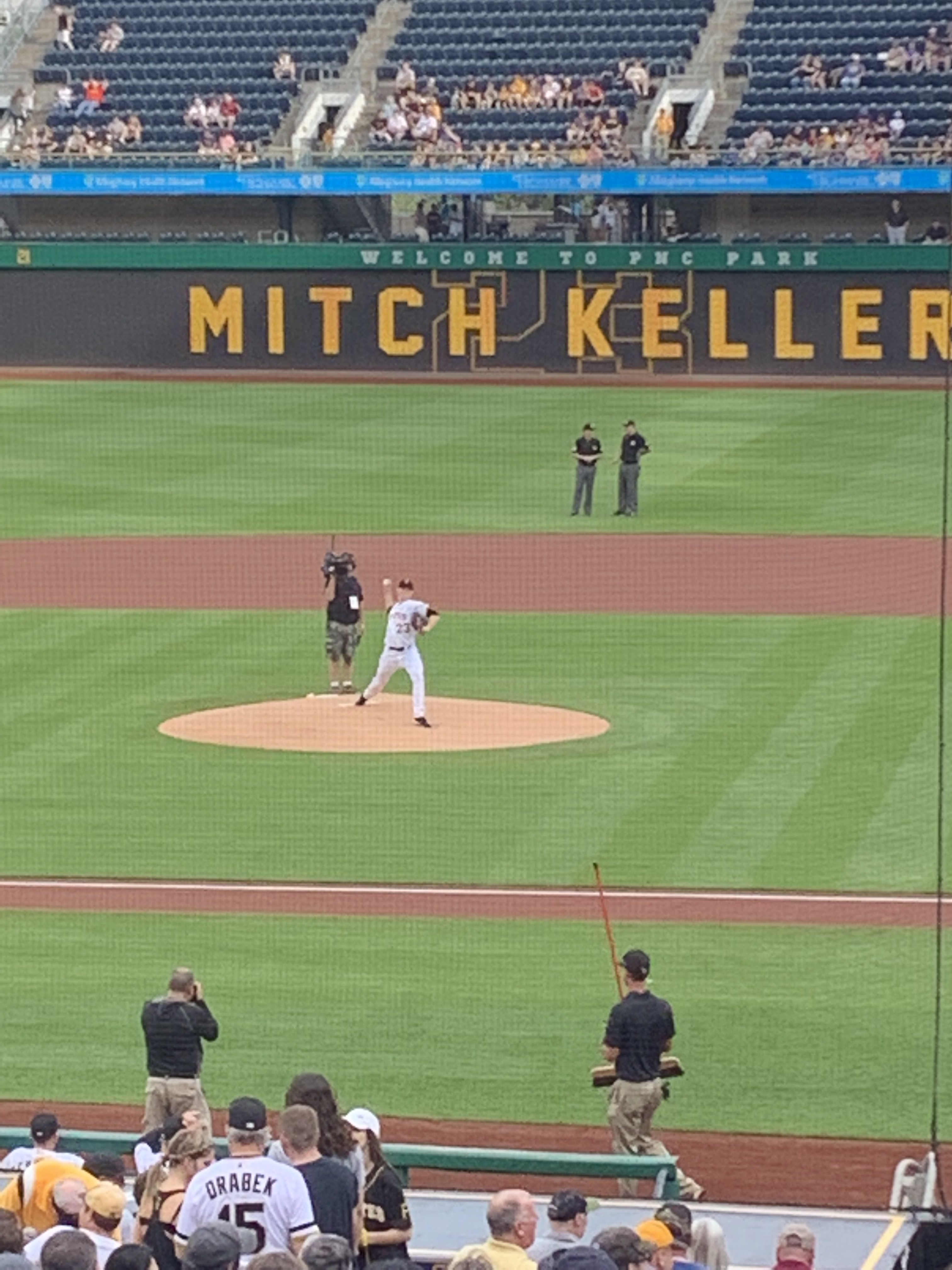 Refer to caption.